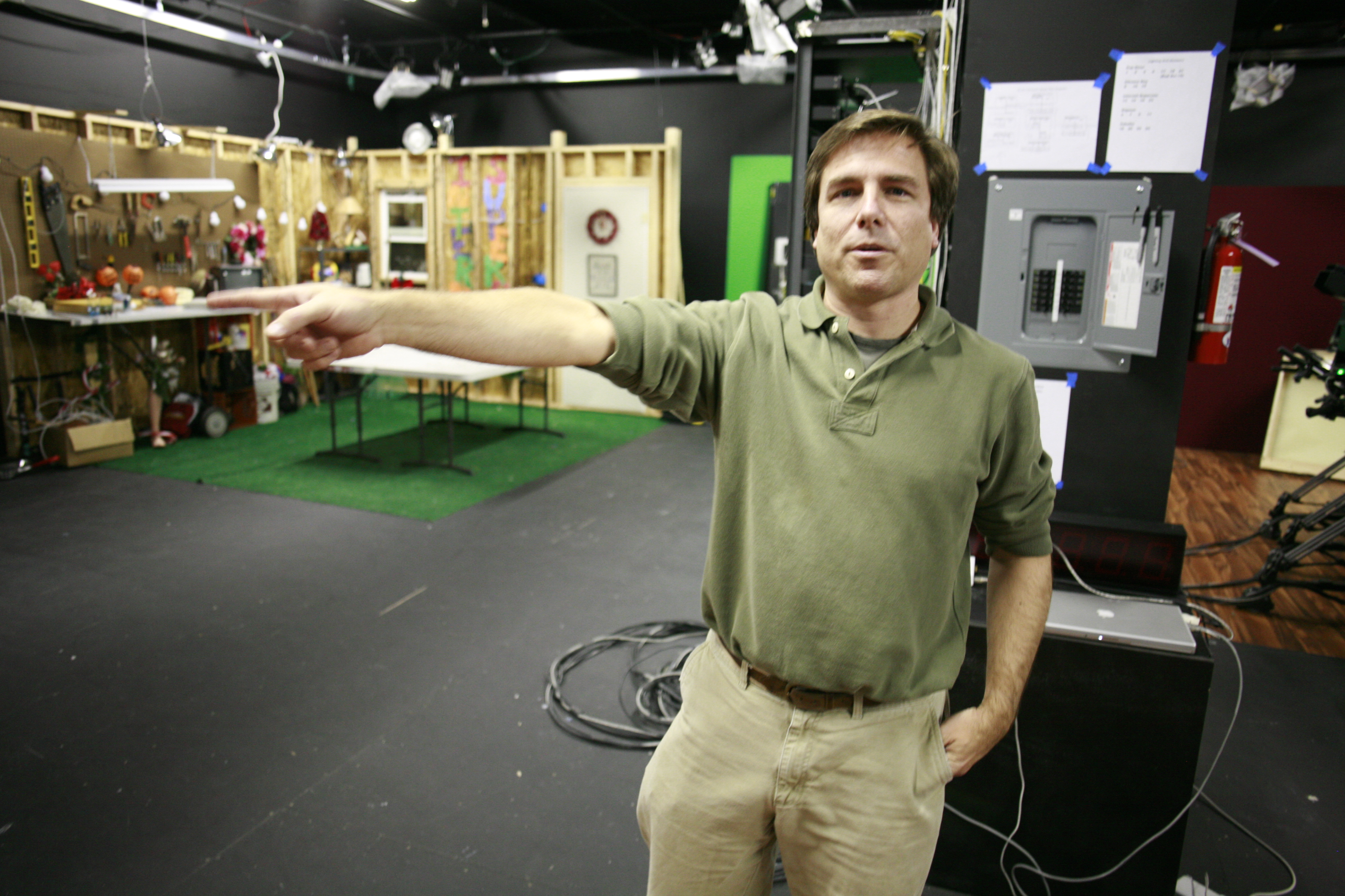 Jim Louderback, CEO of Revision 3